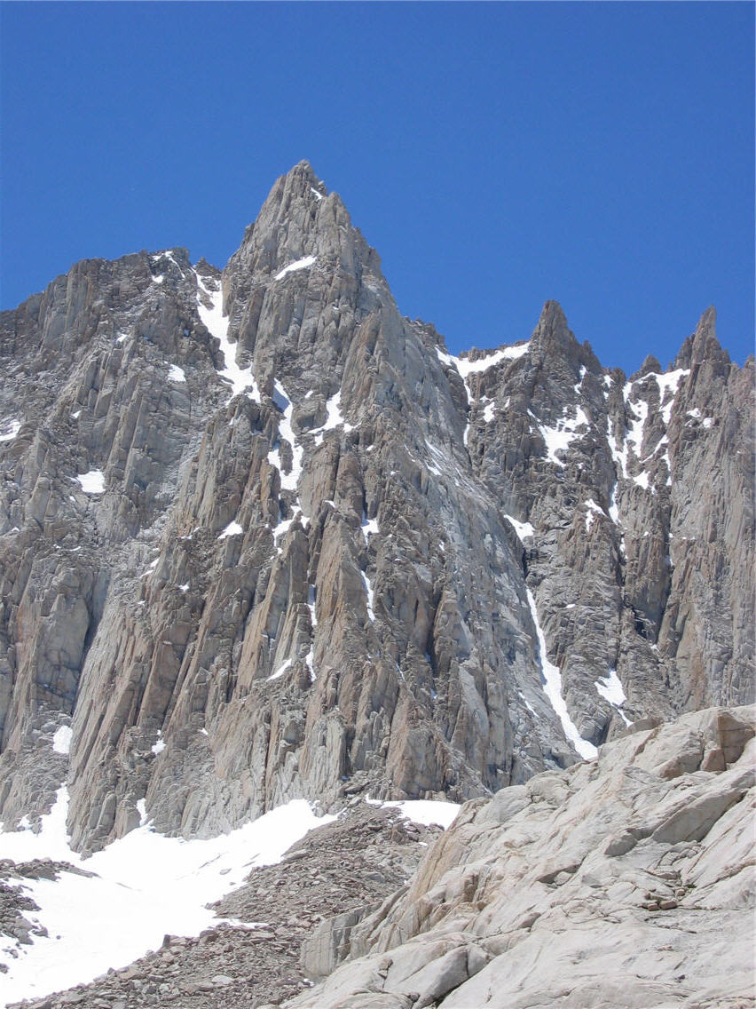 Mount Muir, 14,018 ft (4,273 m) — Eastern Sierra peak near Mount Whitney, within Sequoia National Park and the John Muir Wilderness.